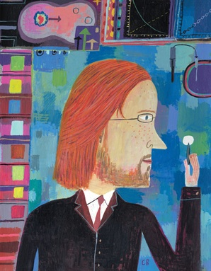 W. Mark Saltzman discovering the Gliadel Wafer